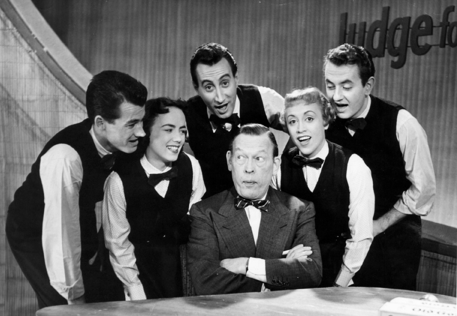 Photo of comedian Fred Allen and the vocal group, The Skylarks, on the television program Judge For Yourself. Allen, seated at desk, was the host of the show. The Skylarks, from left-Joe Hamilton (producer) (once married to Carol Burnett), Jackie Joslin, George Becker, Malka Maikin and Earl Brown.